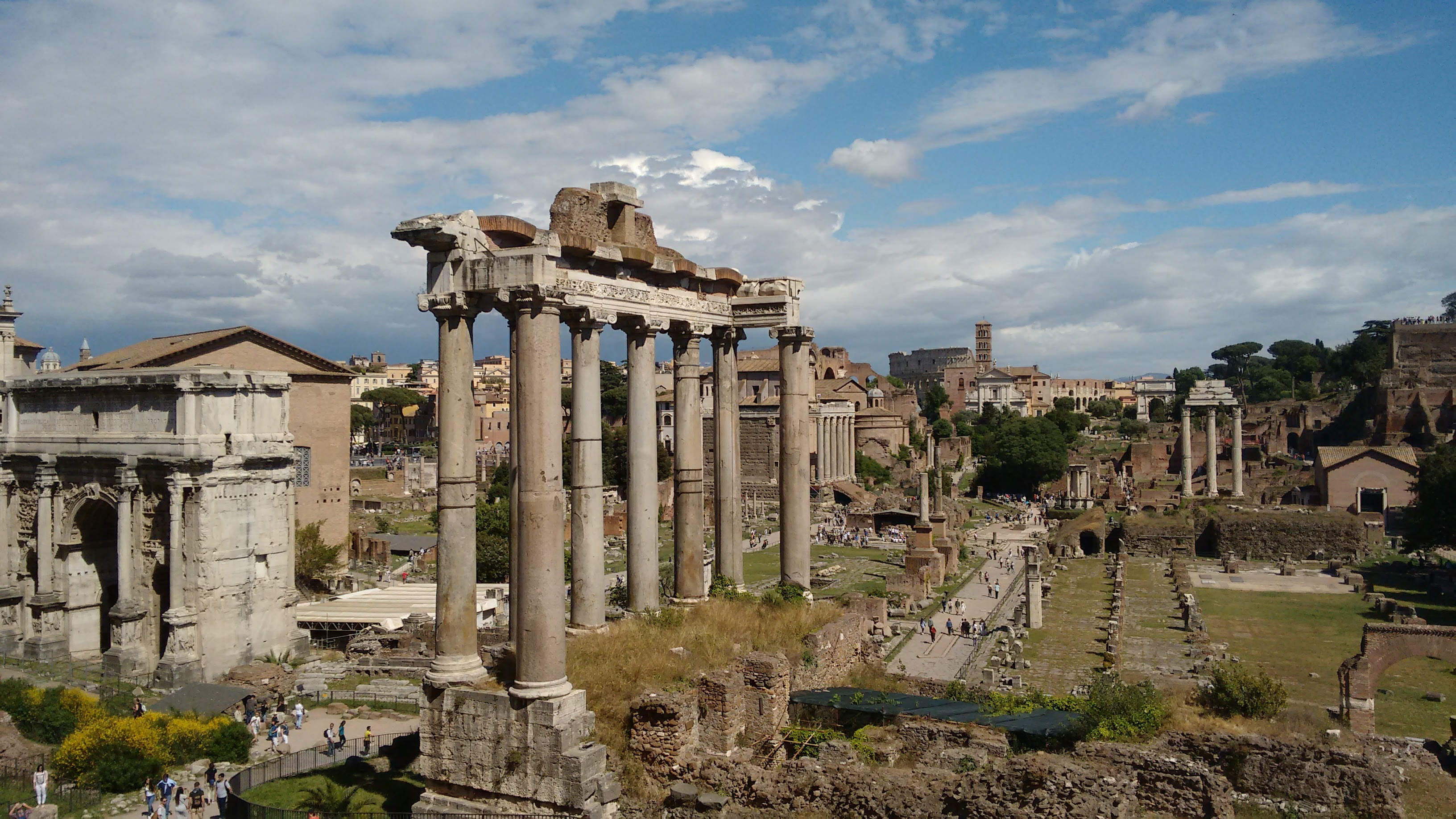 View of the Roman Forum from Via di Monte Tarpeo